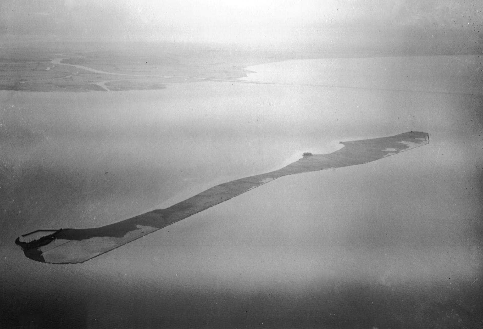 Aerial picture of Schokland in 1933.